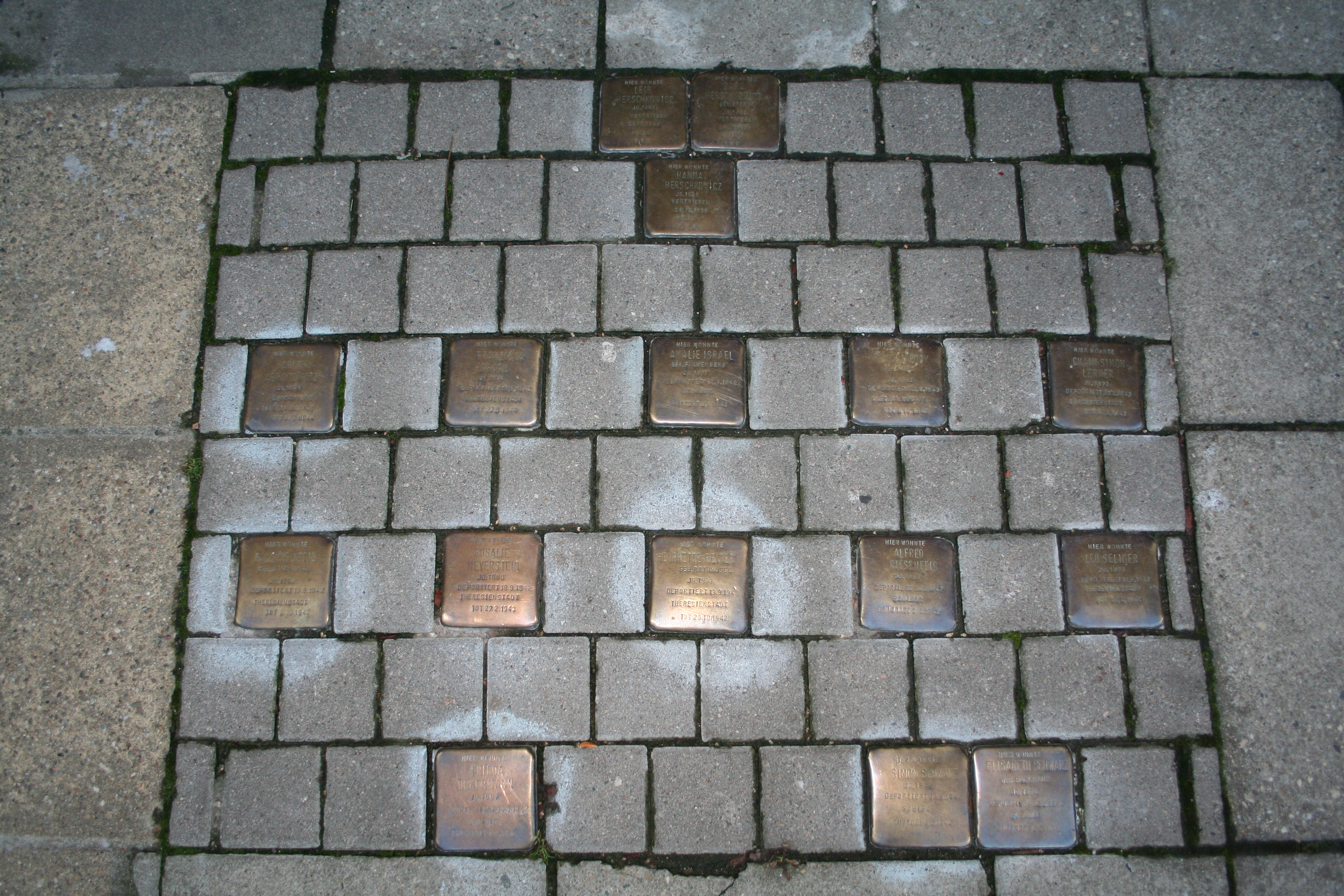 Stolperstein at Halle (Saale) for Leib, Sara and Hanna Herschkowicz, Aron Abramowitz, Franziska Frank, Amalie Israel, Flora Jacoby, Chaim Simon Lerner, Pauline Metis, Rosalie Meyerstein, Henriette Reiter, Alfred Riesenfeld, Leo Seliger, Frieda Zuckermann, Simon Schwarz and Elisabeth Schwarz, Großer Berlin 8